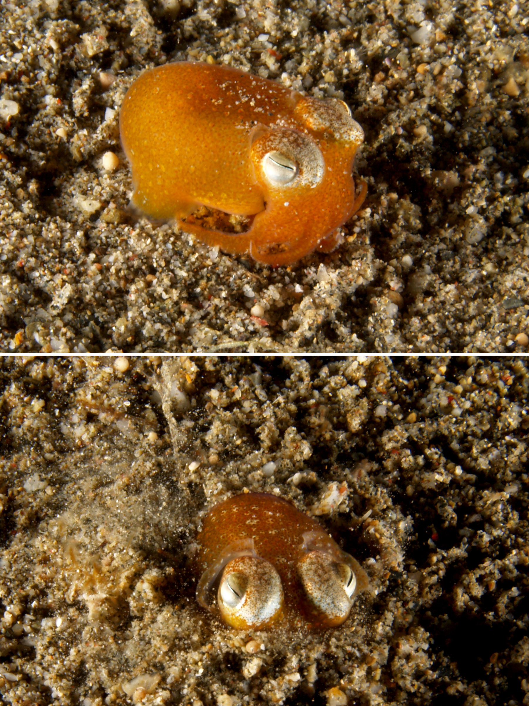 Bobtail squid shown exhibiting defensive behavior by digging in the sand to cover its body, leaving only its eyes exposed. This may explain the color difference between the body and the upper rim above the eyes.